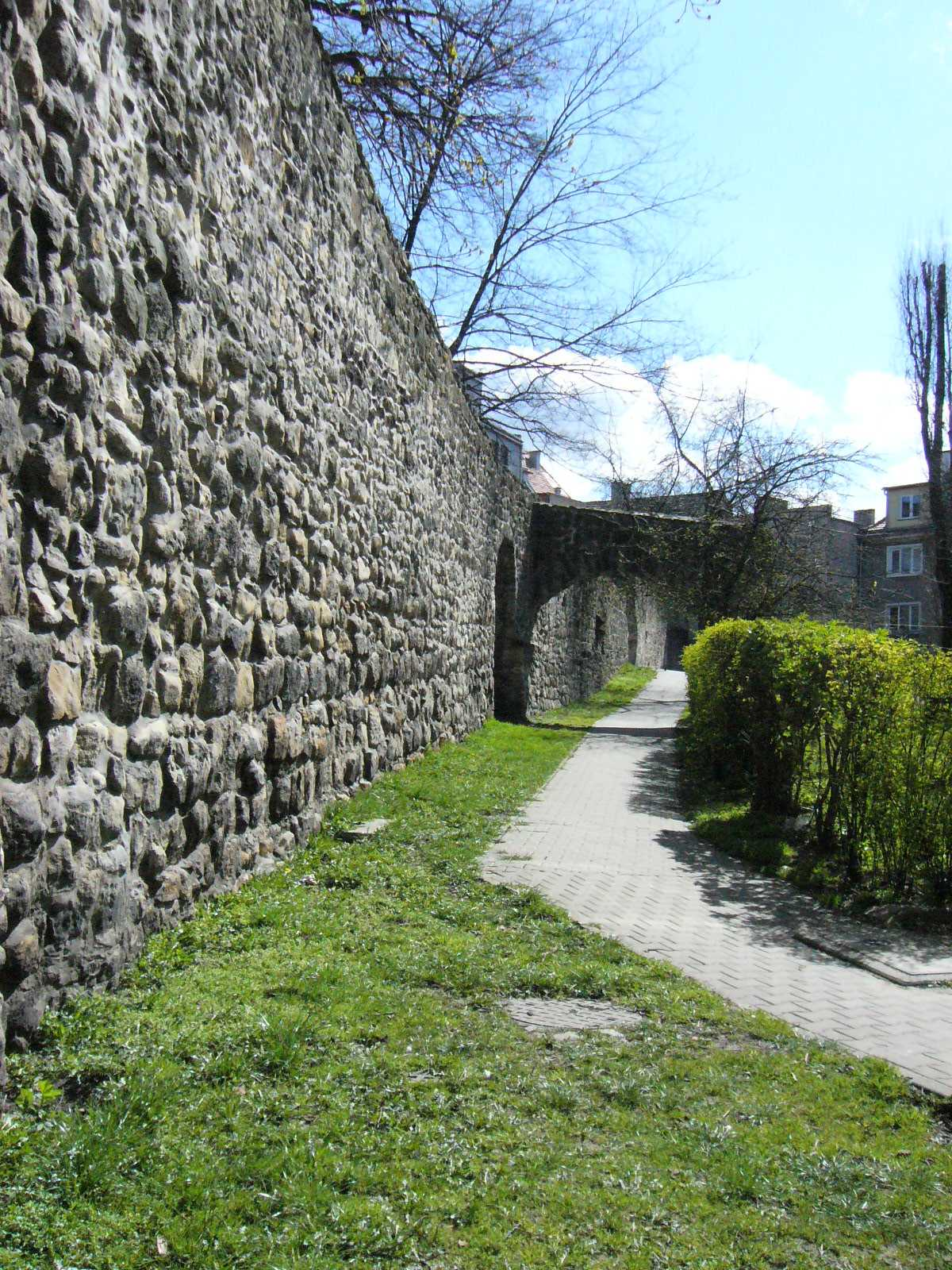 Bolesławiec, Straży (guard) street, along city walls inner side.